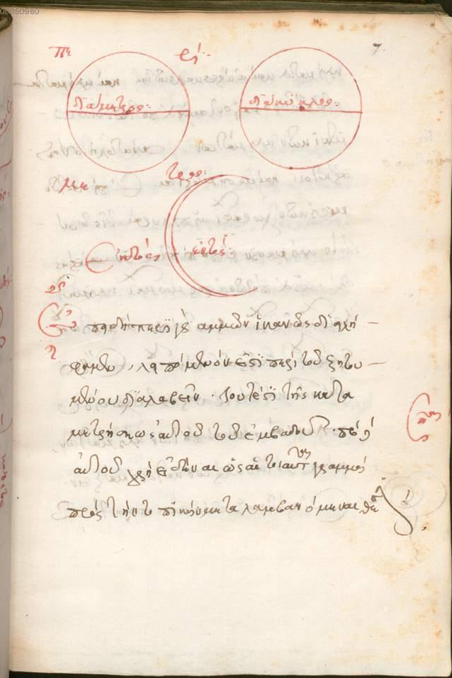 Page 19 from the Geometry of Ioannis Pediasimos(Latin: Johannes Pediasimus). 1501 copy (BS Cod. graec. 269) John Pediasimos (Greek: Ιωάννης Πεδιάσιμος; ca. 1250 – early 14th century), also known as John Pothos, was a Byzantine churchman, scholar, astronomer, mathematician, mythologist, syllogistic, musician, and physician active at Constantinople, Ohrid and Thessalonica.